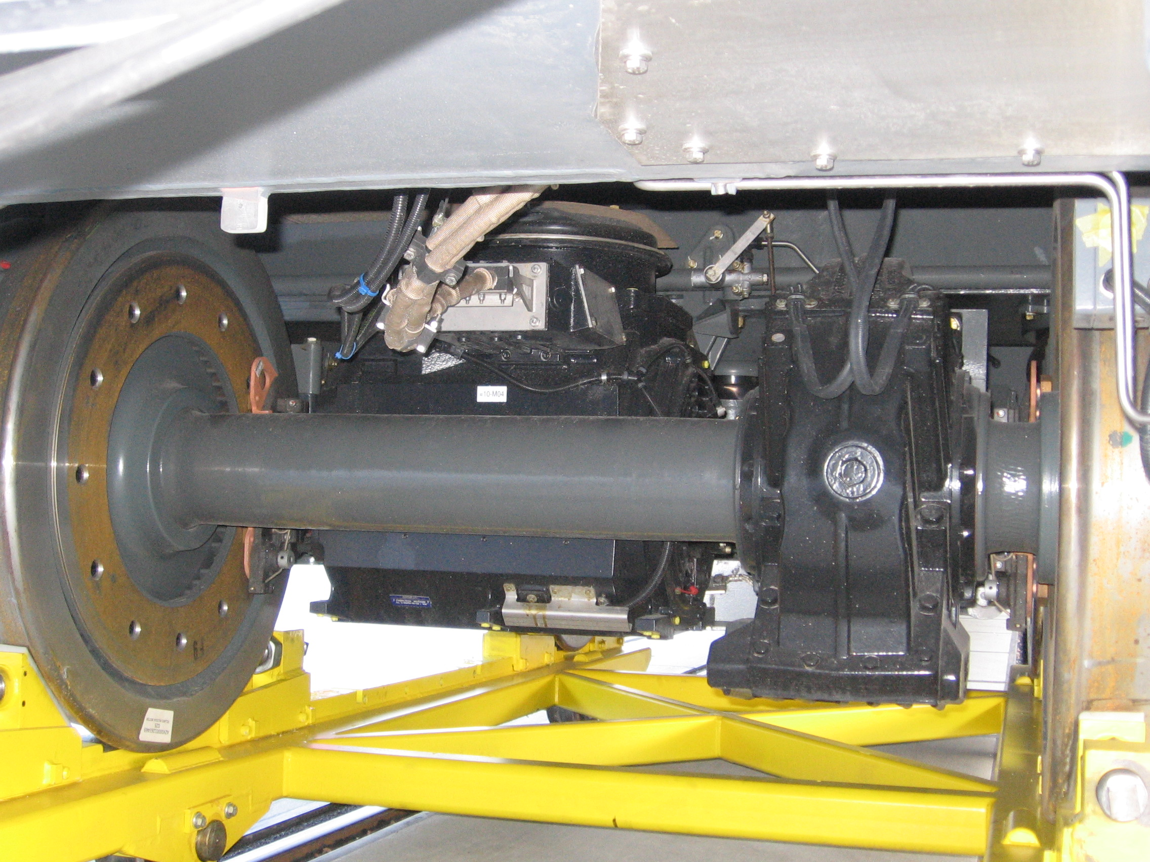 Drivig bogie of SŽD Sapsan high speed unit at Innotrans Berlin 2008.